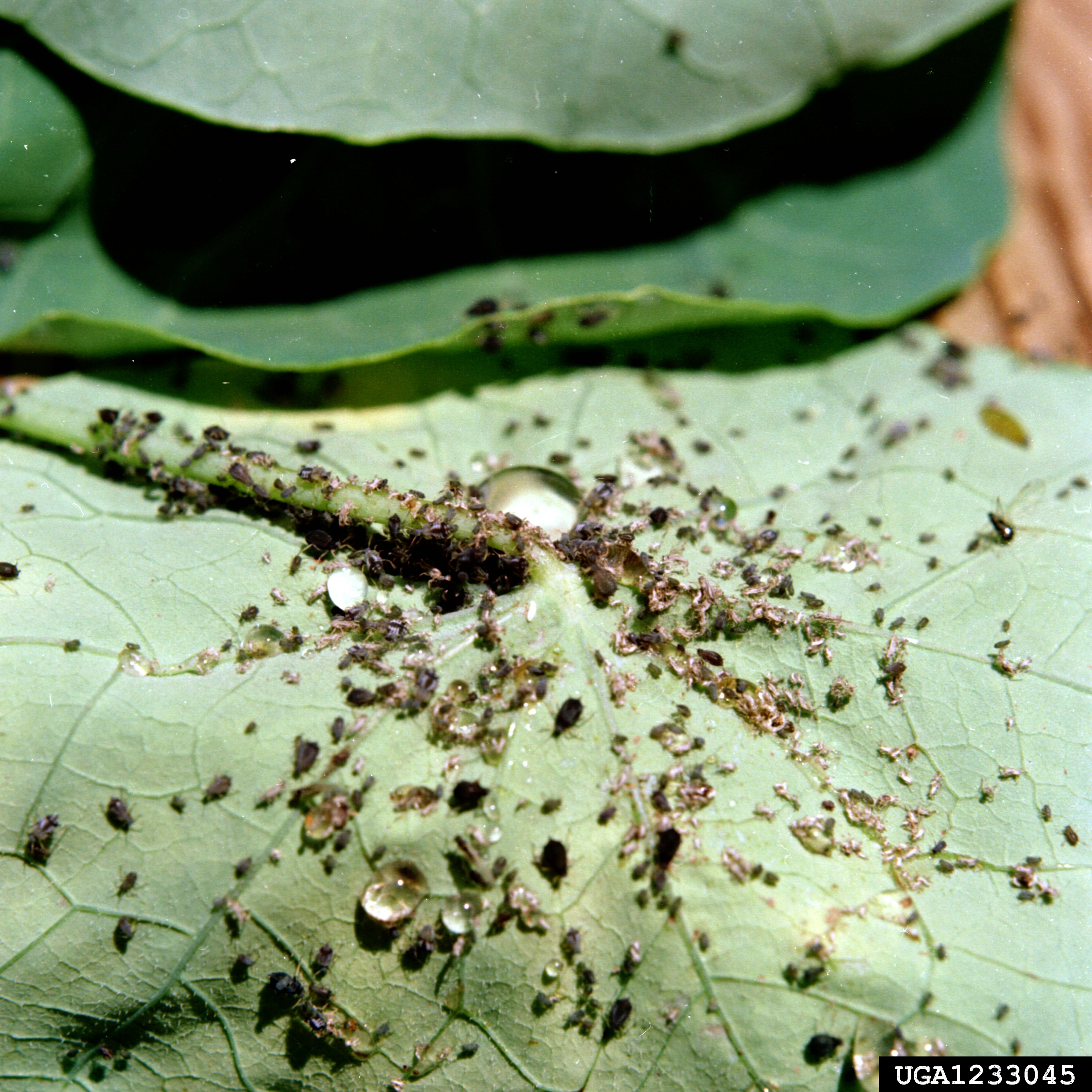 nymphs and adults of Aphis gossypii on cotton